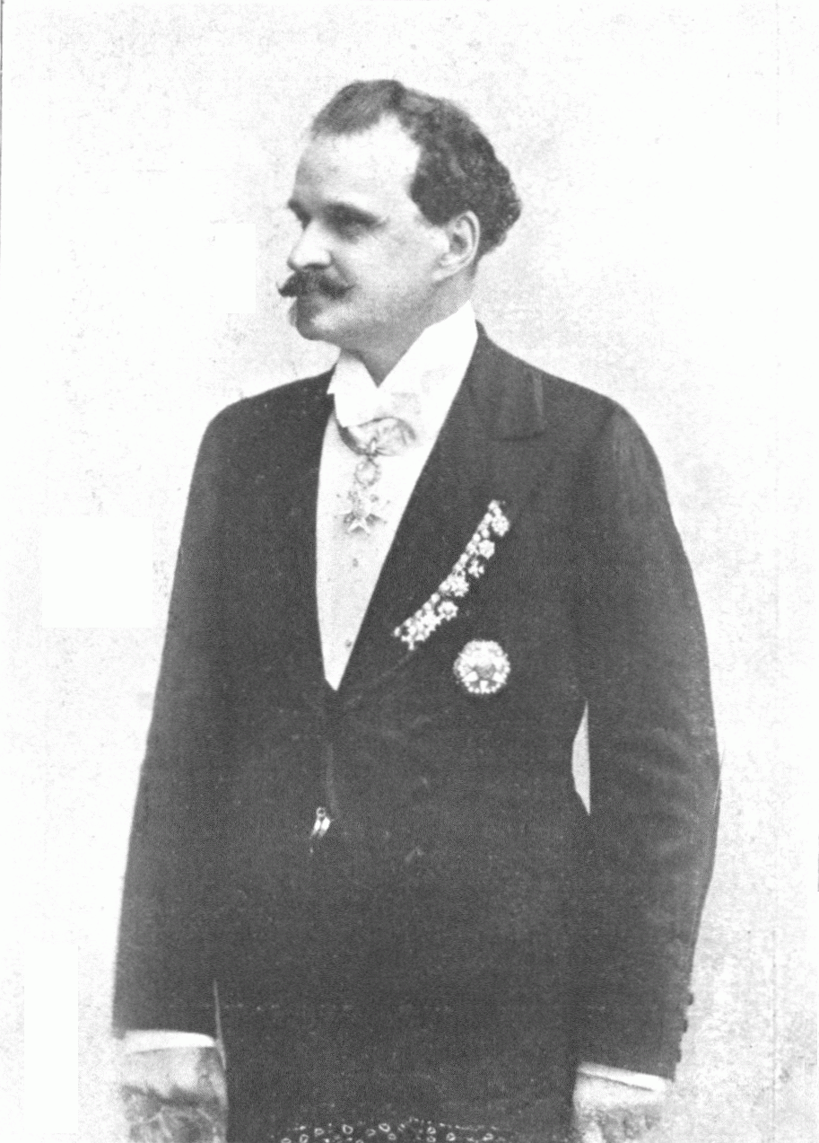 Eduard Strauss (1835–1916), Austrian composer (brother of Johann Strauss II and Josef Strauss)